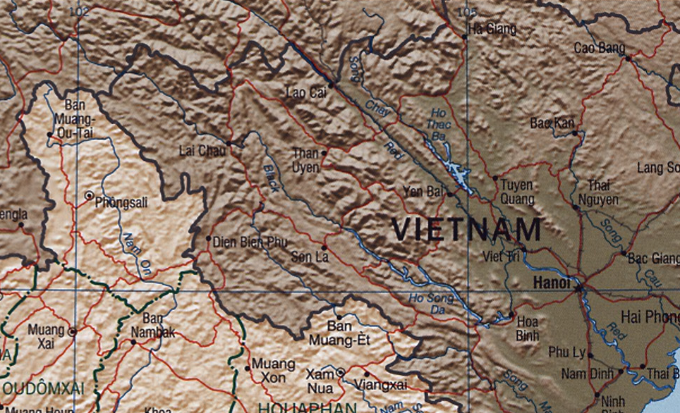 Hong river system